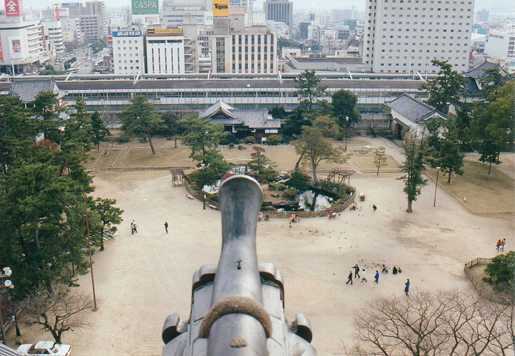 Hon-maru from the keep of Fukuyama Castle